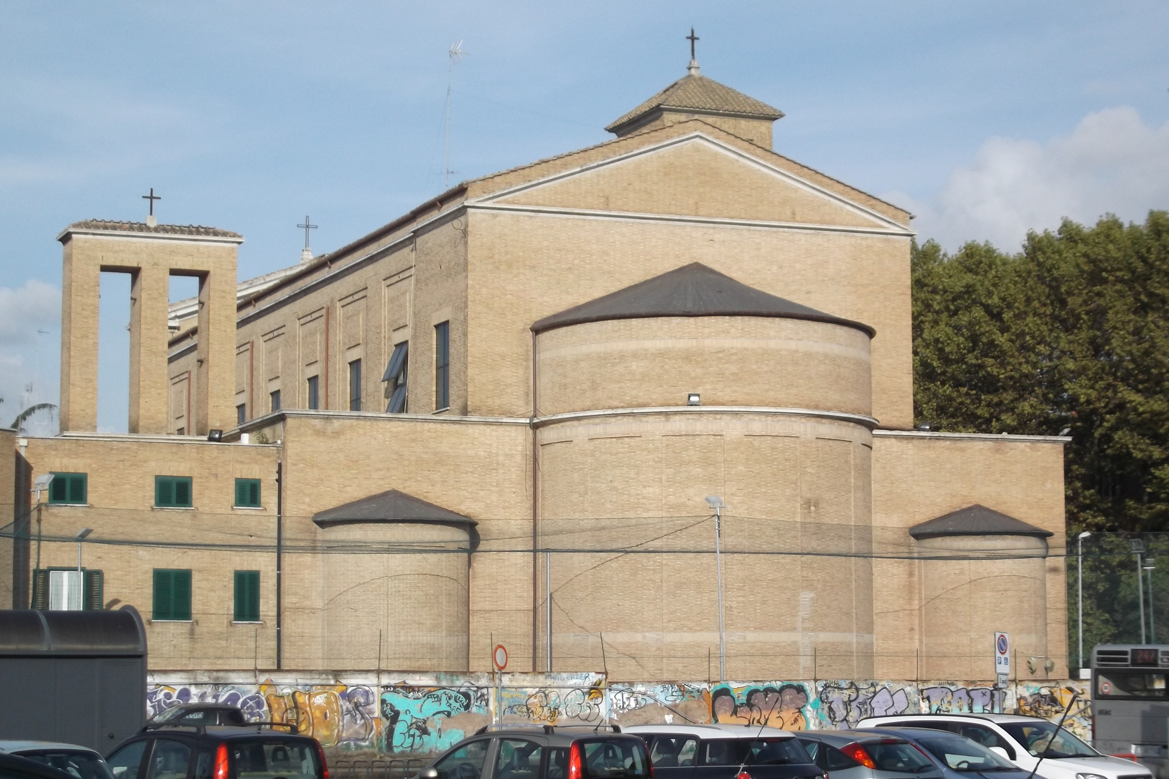 Rear view of Santa Maria delle Grazie (Church of Our Lady of Graces) in Rome